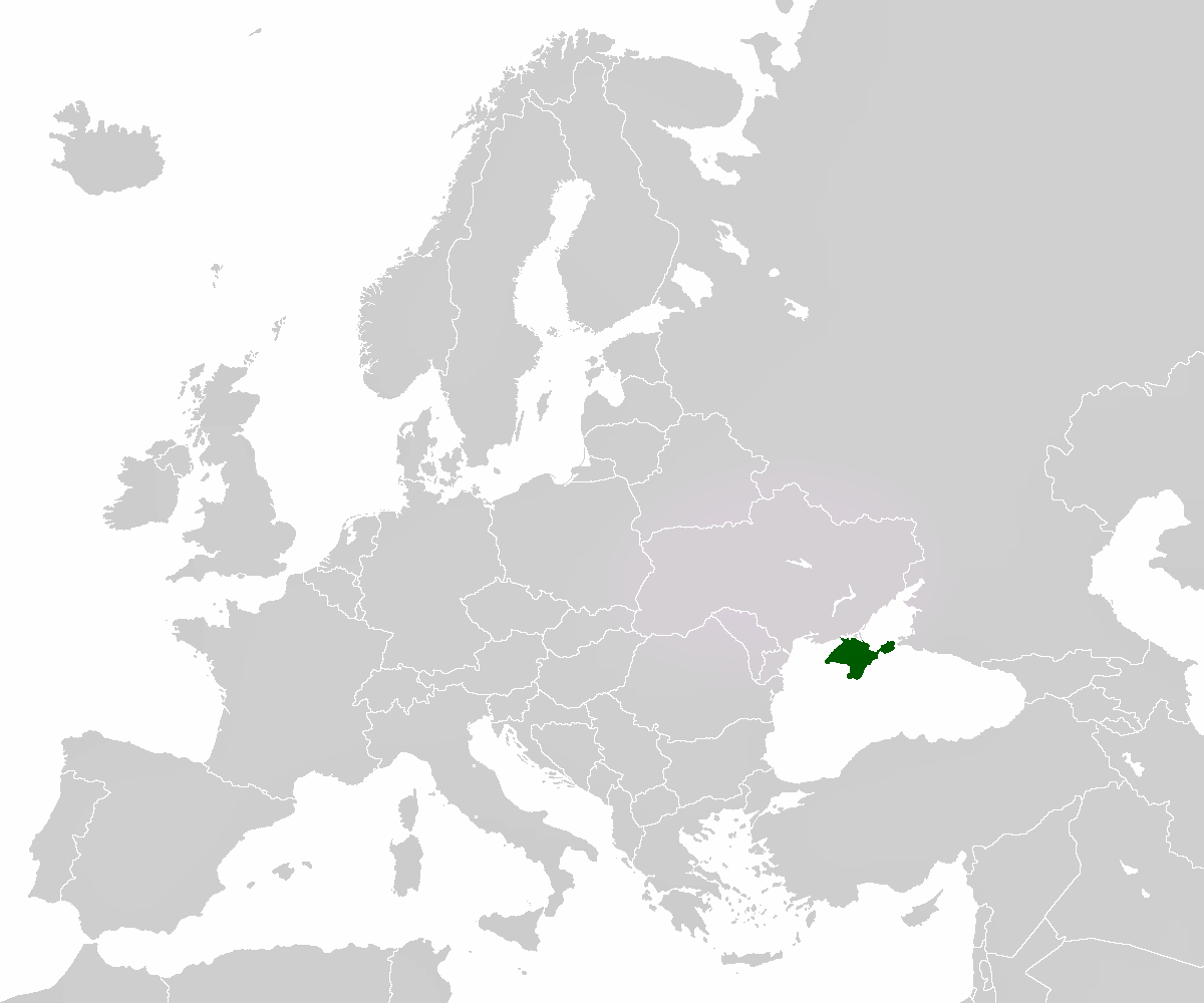 Map of the Republic of Crimea within Europe